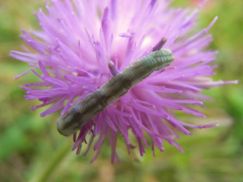 Eupithecia centaureata, larva. Location: The Netherlands - Diffelen